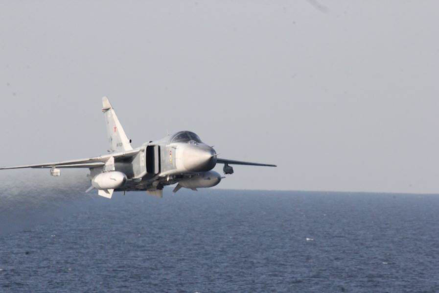 A Russian Sukhoi Su-24 attack aircraft makes a low altitude pass by the USS Donald Cook (DDG 75) April 12, 2016. Donald Cook, an Arleigh Burke-class guided-missile destroyer, forward deployed to Rota, Spain is conducting a routine patrol in the U.S. 6th Fleet area of operations in support of U.S. national security interests in Europe.